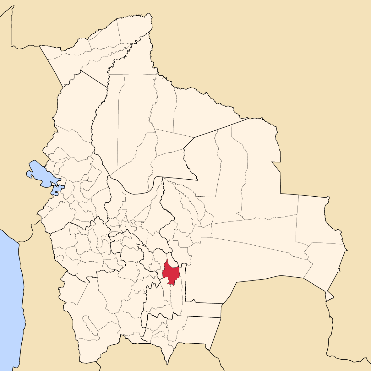 Map of Bolivia showing Tomina province, Chuquisaca